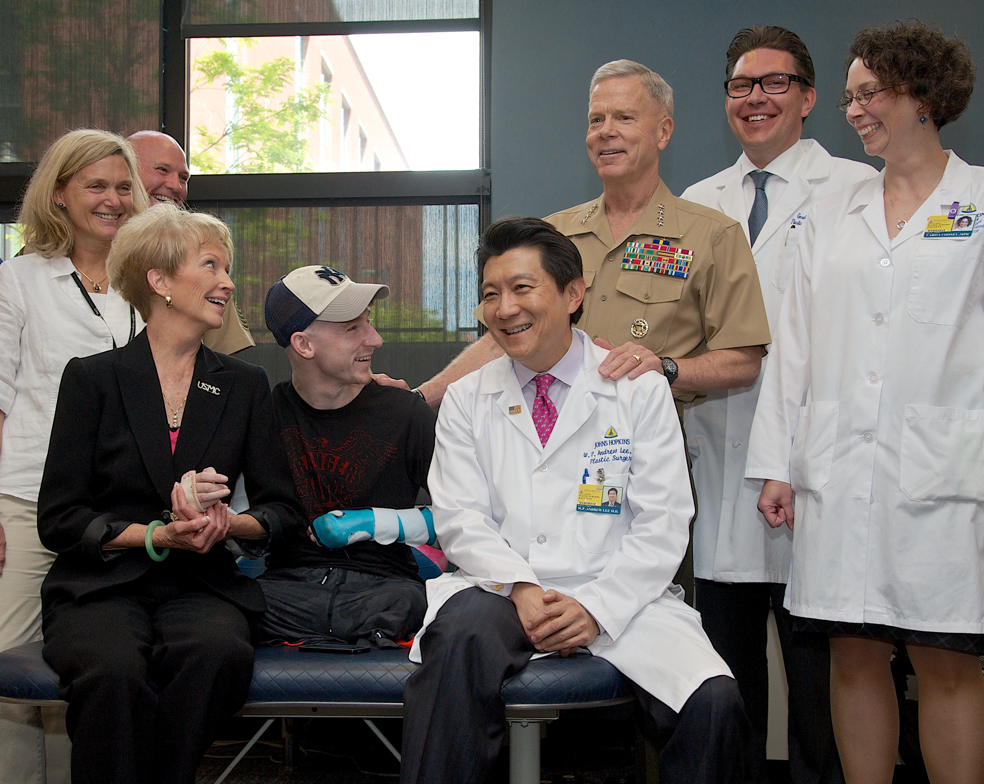 Dr. W. P. Andrew Lee with Bonnie Amos, Brendan Marrocco, and Commandant of the Marine Corps James Amos in 2013.